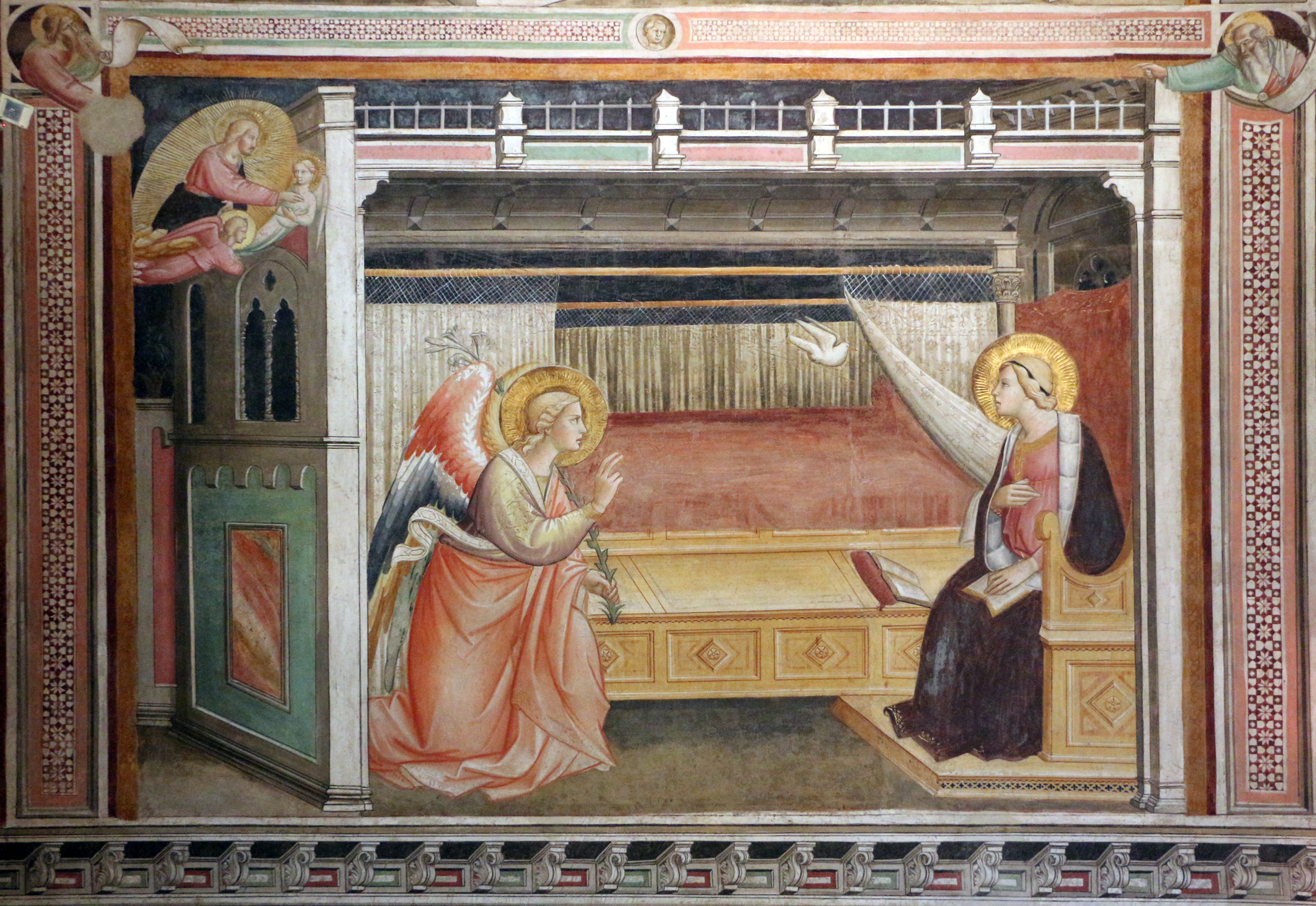 Cappella del Sacro Cingolo - Frescos by Agnolo Gaddi